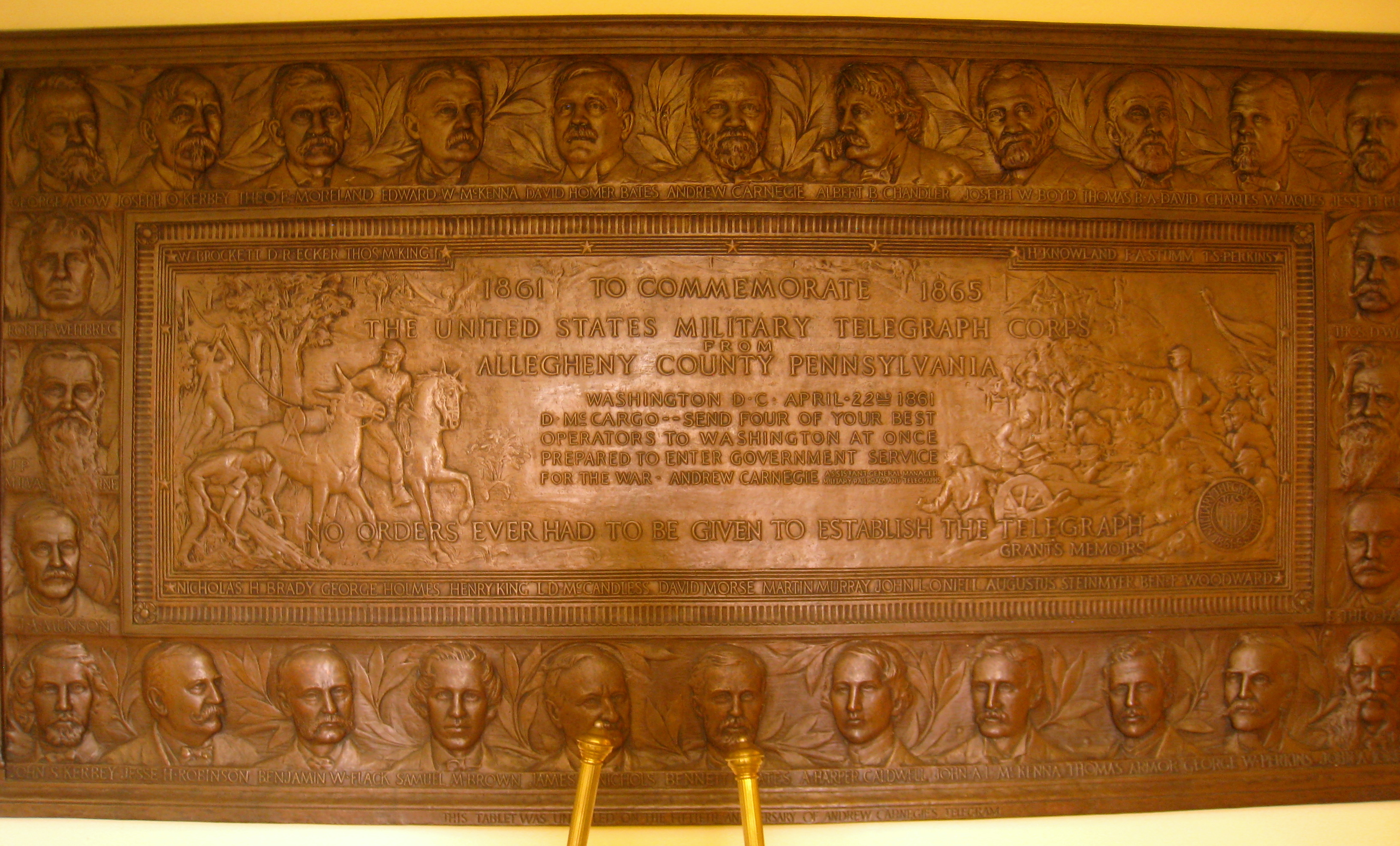 Interior view, Soldiers and Sailors National Military Museum and Memorial (formerly Allegheny County Soldiers' Memorial), Pittsburgh, Pennsylvania, USA.